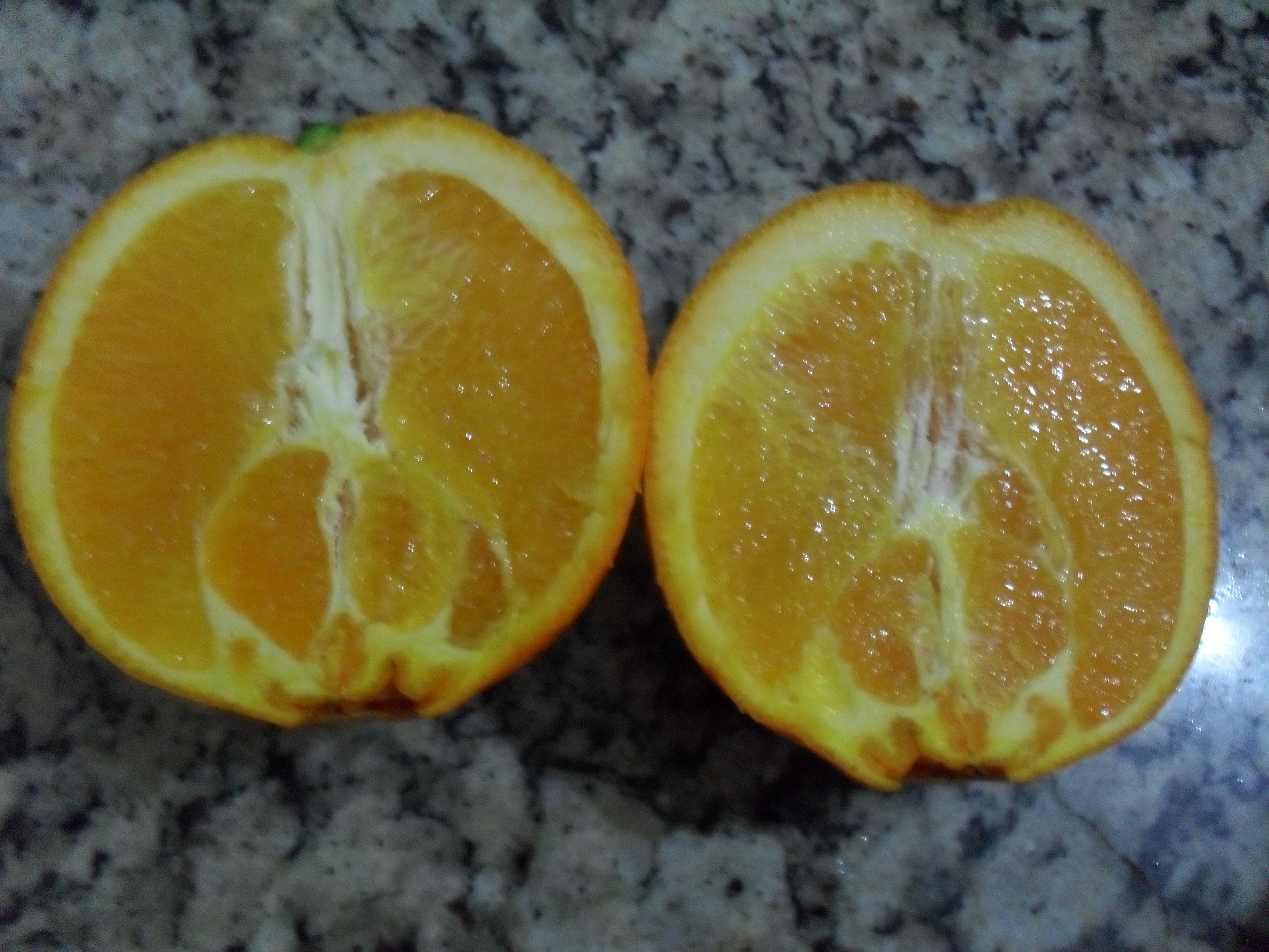 Vertical cut of a navel orange showing the cojoined fruit which is responsible for the "navel".